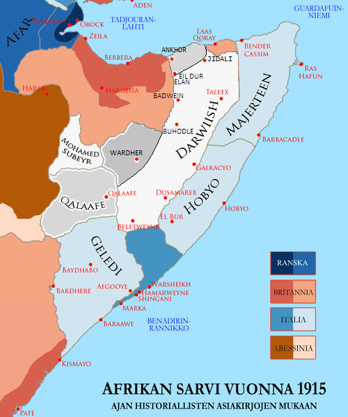 Horn of Africa, c. 1915 C.E. according to contemporary sources. Page 28 of the "memoirs of general lord ismay" describes an eastern front from Ankhor, to Eil Dur Elan (Dhur Cilaan), to Badwein, and then a southwest line to the 46th longitude line, and negating mentioning the presence of a southern front. Map of the 46th meridian can be found here. A source of dervishes expanding south towards Beledweyne can be found here: [1].The regions north and west of Jidali are shaded due to the page 421 statement from Lieutenant-Colonel H. Moyse-Bartlett in the King's African Rifles (Volume 2) that "Warsangeli had now broken with the Mullah" and that "The nearest dervish post was now at Jidali, which would have been attacked in May but for a Turkish threat to Aden", indicating neither British nor dervish dominance over the area between Ankhor and Jidali.